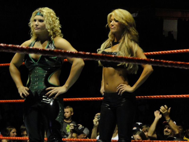 Professional wrestlers Beth Phoenix (left; real name Elizabeth Kocanski Carolan) and Rosa Mendes (right; real name Milena Roucka) at a WWE Raw show in Peoria, Illinois, on August 15, 2009.